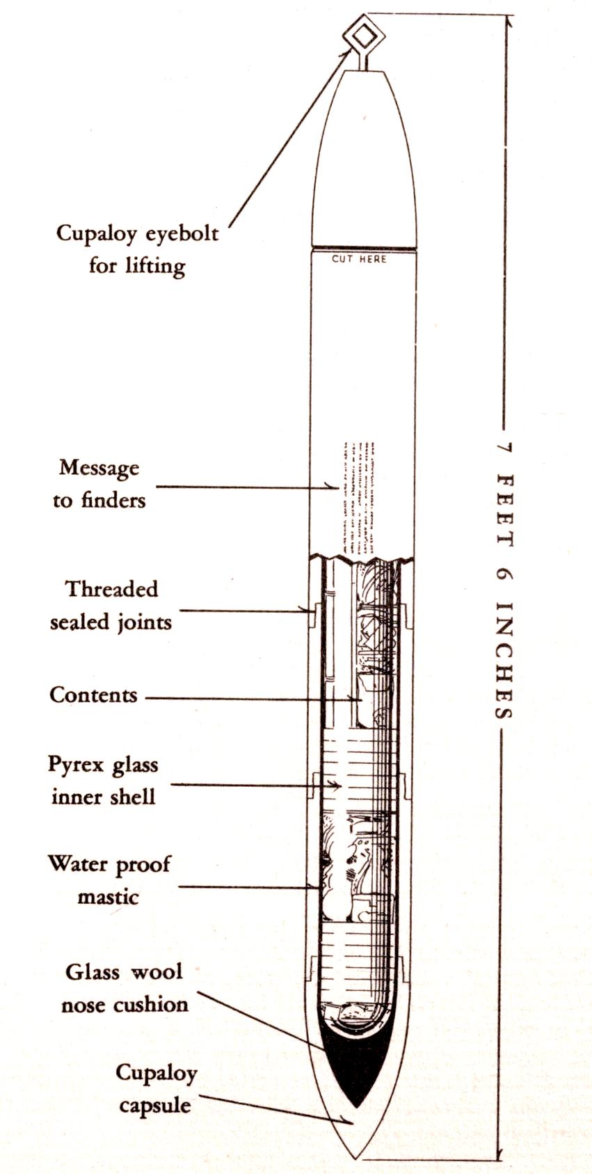 1939 Time Capsule "Cupaloy" from New York World's Fair